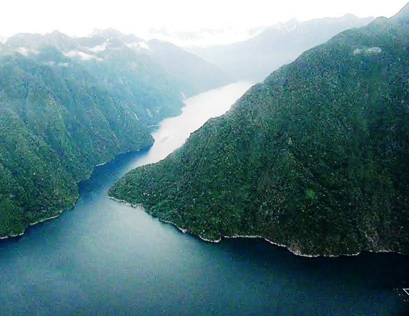 Vista aerea entrada fiordo Quintupeu por donde habría pasado el SMS Dresden huyendo de la flota británica